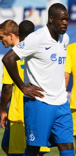 Christopher Samba